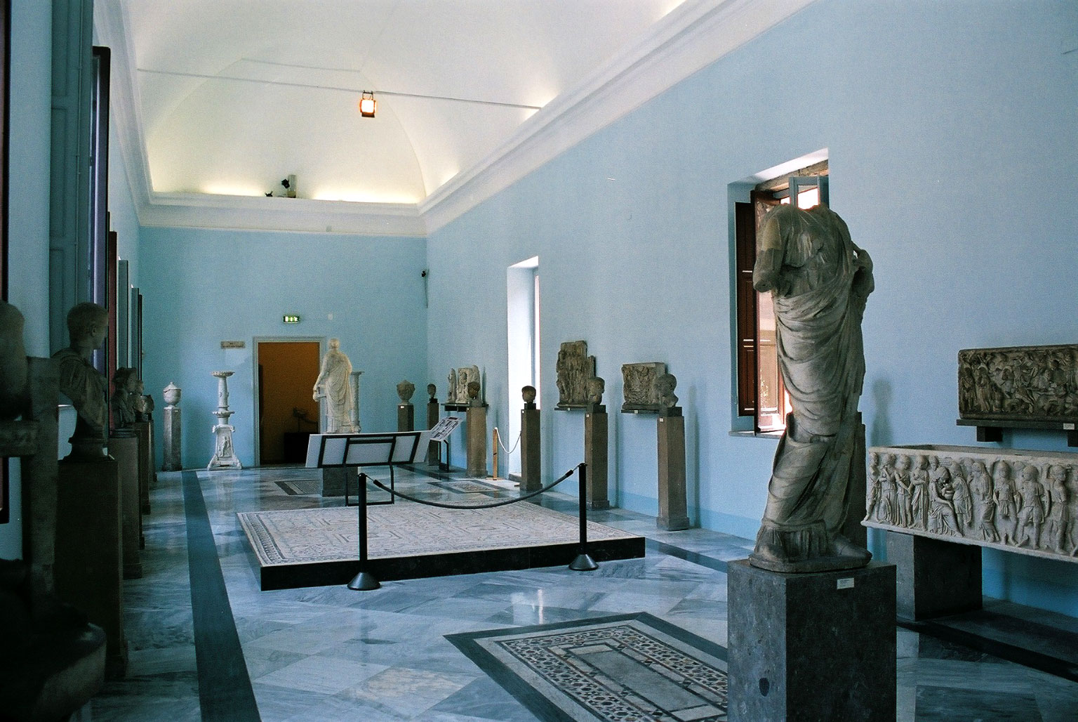 Museo archeologico regionale di Palermo. Room with Roman exhibits.